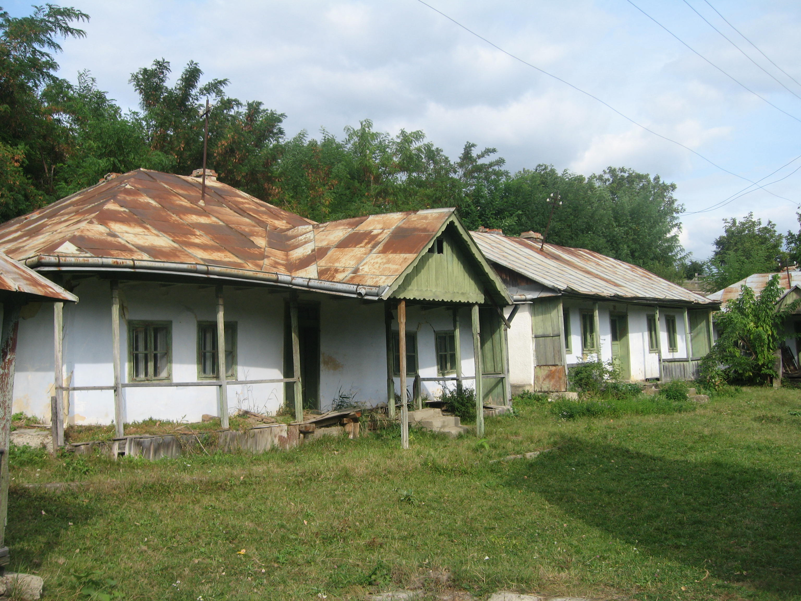 Mănăstirea Agafton 03